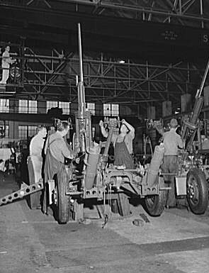 Protection piece. The finished assembly of a 37 mm anti-aircraft gun carriage receives final adjustments in an eastern arsenal.